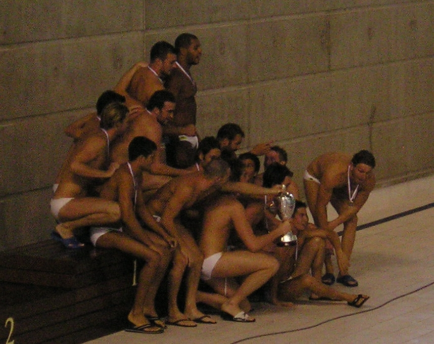 In Montpellier, France, end of the Water Polo Cup of France, Sunday 4 October 2009. The winner players of the Cercle des nageurs de Marseille are photographed by the press corps.